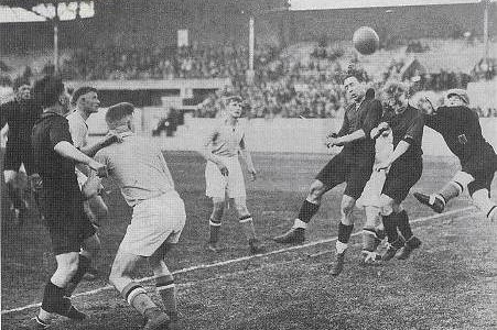 Match phase during the Belgium-Luxembourg football match at the 1928 Summer Olympics, in front of Luxembourg's goal